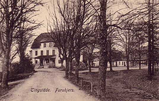 Furubjers mansion i Tingstäde